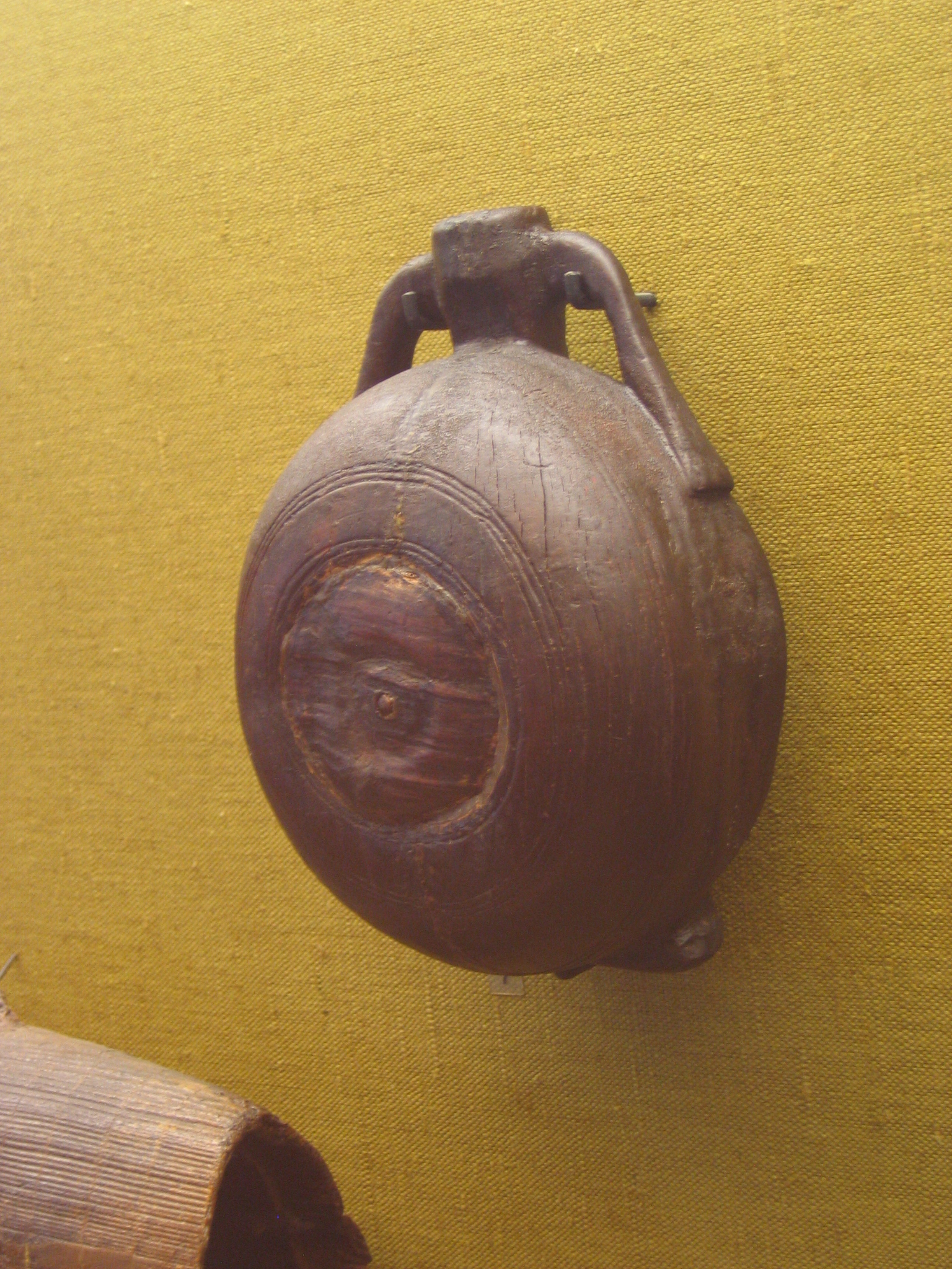 Wooden canteen from the alamannic graveyard Oberflacht near Tuttlingen, Germany, 7th century AD. Photographed at Württembergisches Landesmuseum, Stuttgart, Germany